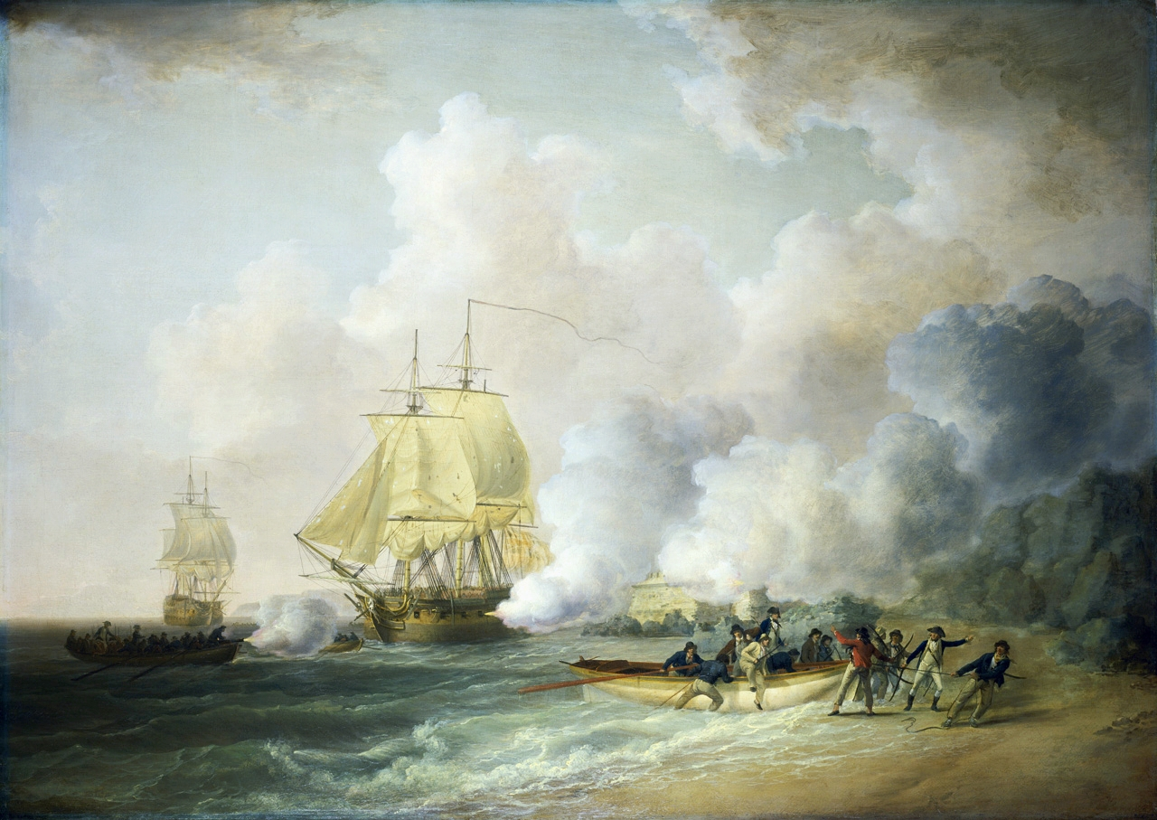 On 5th February 1794, Sir John Jervis and Lieutenant General Sir Charles Grey, arrived at Martinique and by 20th March the whole island, with the exception of Fort Bourbon and Fort Royal, had submitted. Jervis ordered the 'Asia', 64 guns and the 'Zebra' sloop to storm Fort Louis, the chief defence of Fort Royal. The 'Asia' was unable to reach her position, and so Commander Faulknor of the 'Zebra' volunteered to attempt to capture it alone. He ran his sloop close under the walls notwithstanding a very heavy fire, jumped overboard and followed by his ship's company, stormed and captured the fort. Meanwhile the boats captured Fort Royal and two days later Fort Bourbon capitulated. The painting shows the beach, with the fort beyond on the right, where a ship's barge has run ashore. Commander Faulknor is shown leading his men up the beach towards the fort, which is shrouded with gunsmoke. To the left of the fort and close under its walls is the 'Zebra' in port-bow view, engaging to port. On the left of the picture another ship's boat is making for the shore, firing a swivel-gun from her bow. Beyond her are other boats heading for the beach and in the background is the 'Asia', starboard-bow view.[1] ↑ National Maritime Museum